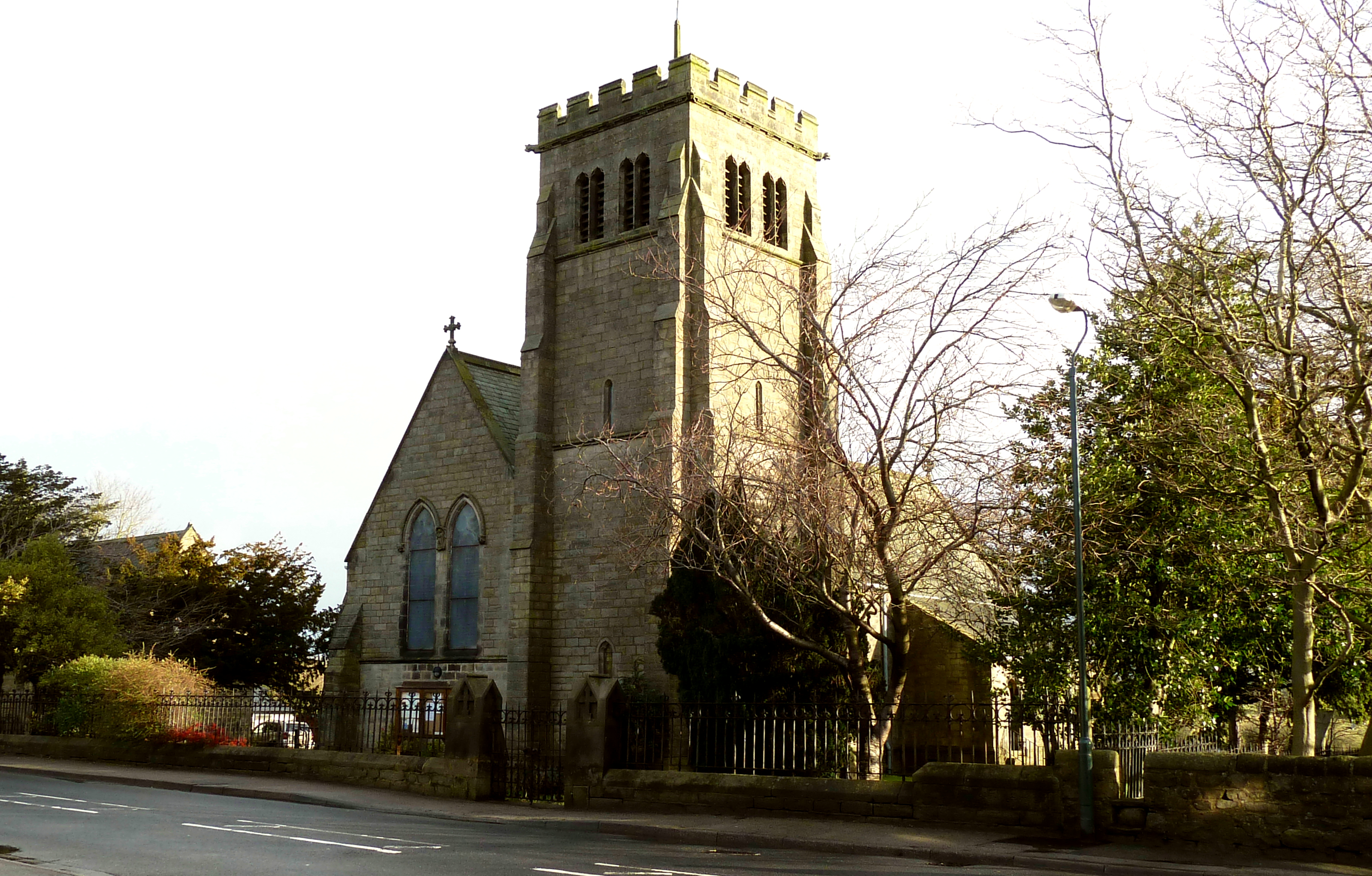 St Michael and All Angels Church, Beckwithshaw, North Yorkshire, England. Viewed from south-west.